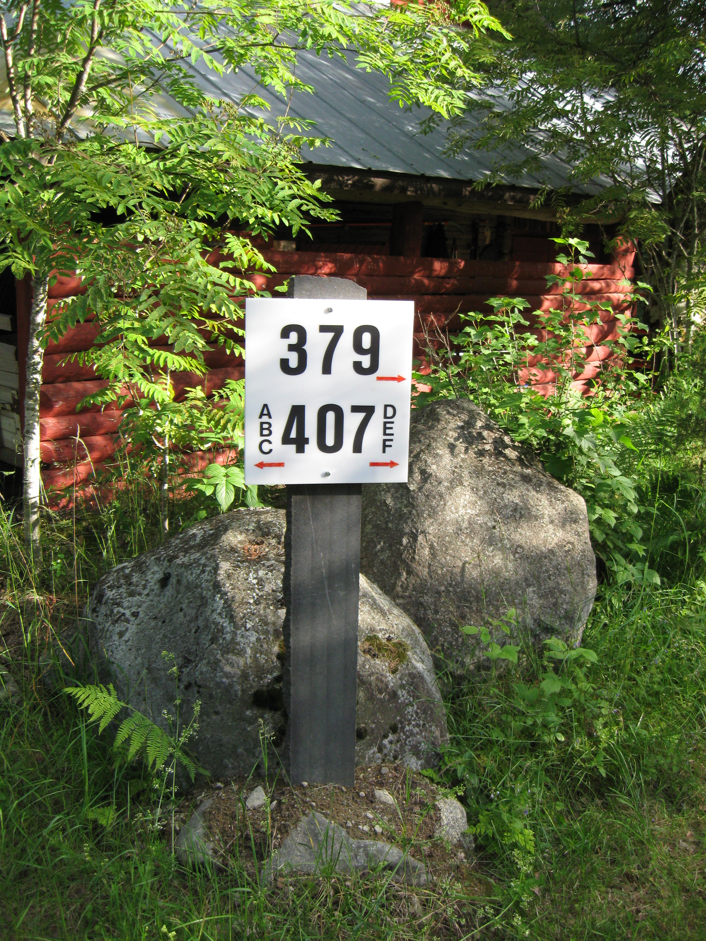 An address number plate in a rural area of Finland, pointing to two different addresses that include several different addressable buildings.